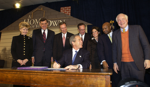 This bill was Rep. Katherine Harris' first piece of legislation enacted into law. It was signed on December 16, 2003.